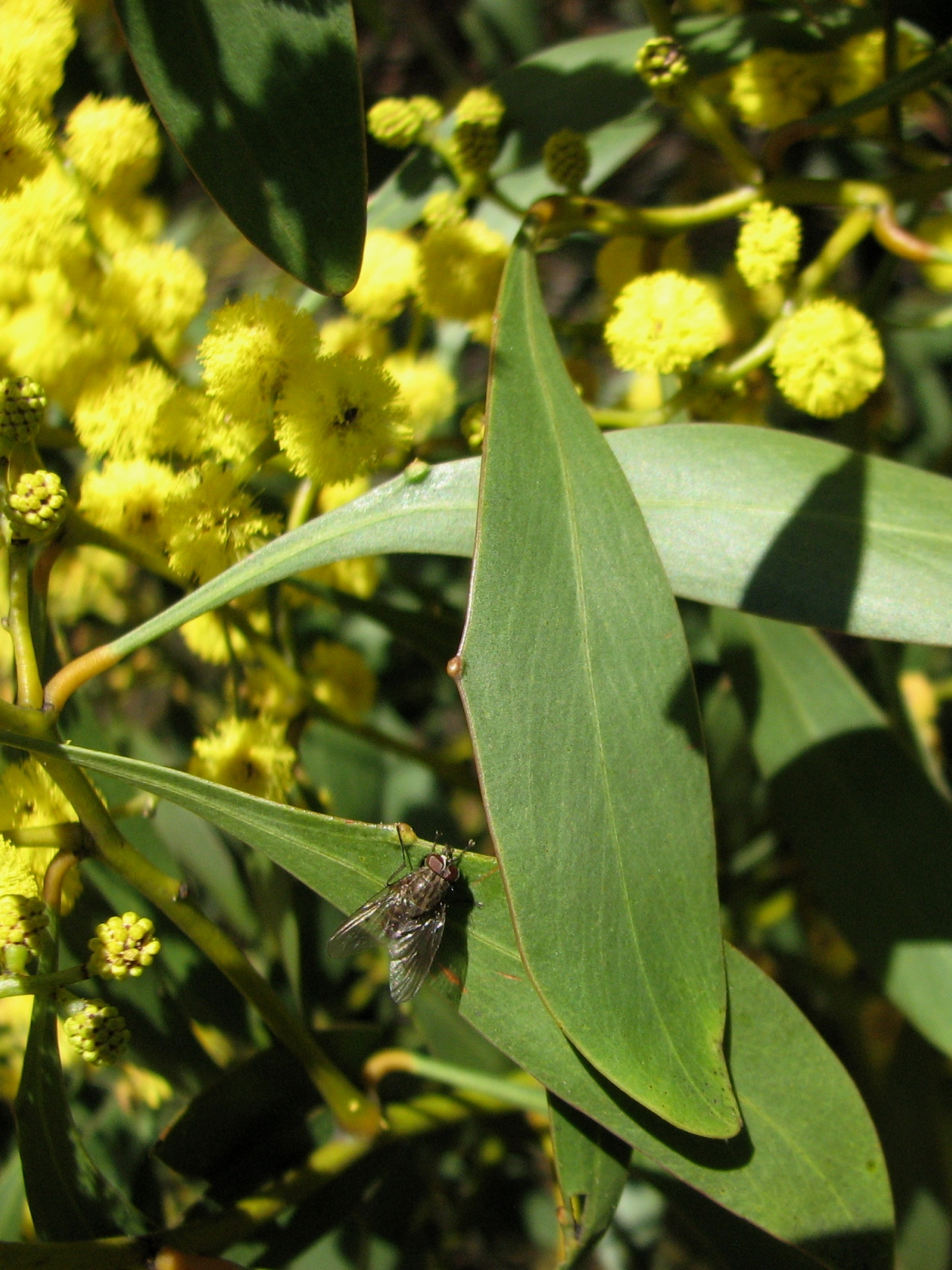 Fly visiting nectary on phyllode of Acacia pycnantha Location: Wattle Park, Burwood, Victoria, Australia